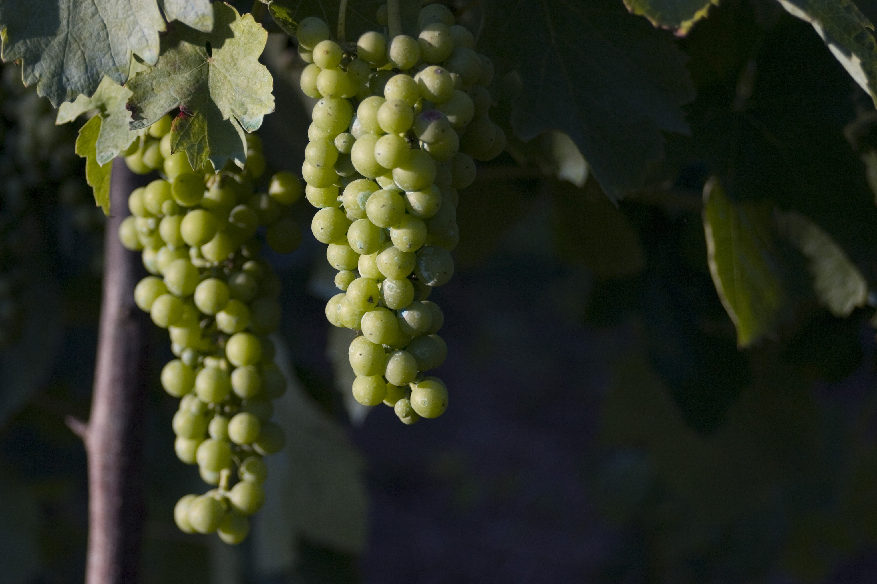 Fiano grapes growing in the Italian wine region of Campania in mid-July prior to color change and maturity of veraison.